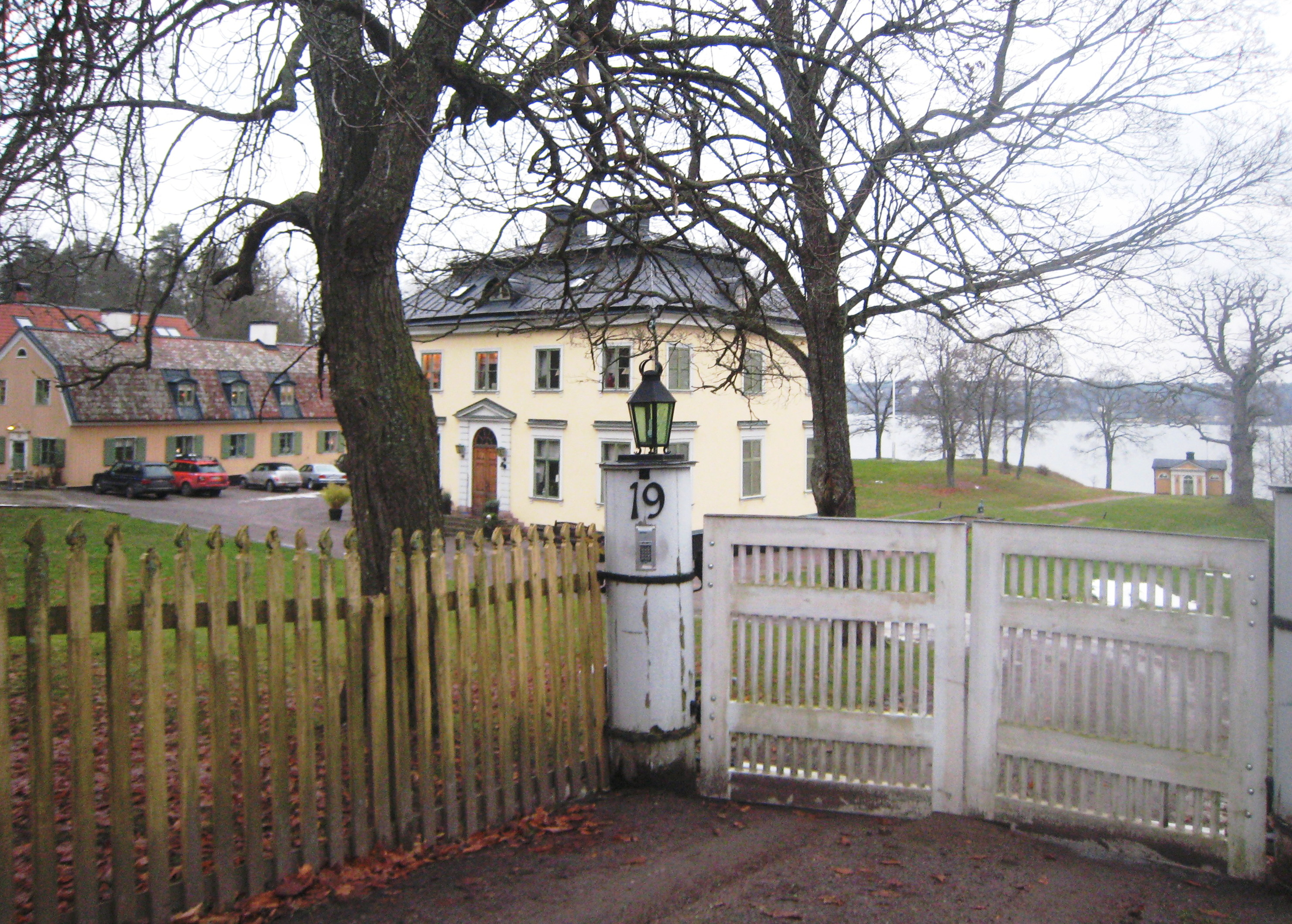 Loviselund, Drottningholmsmalmen